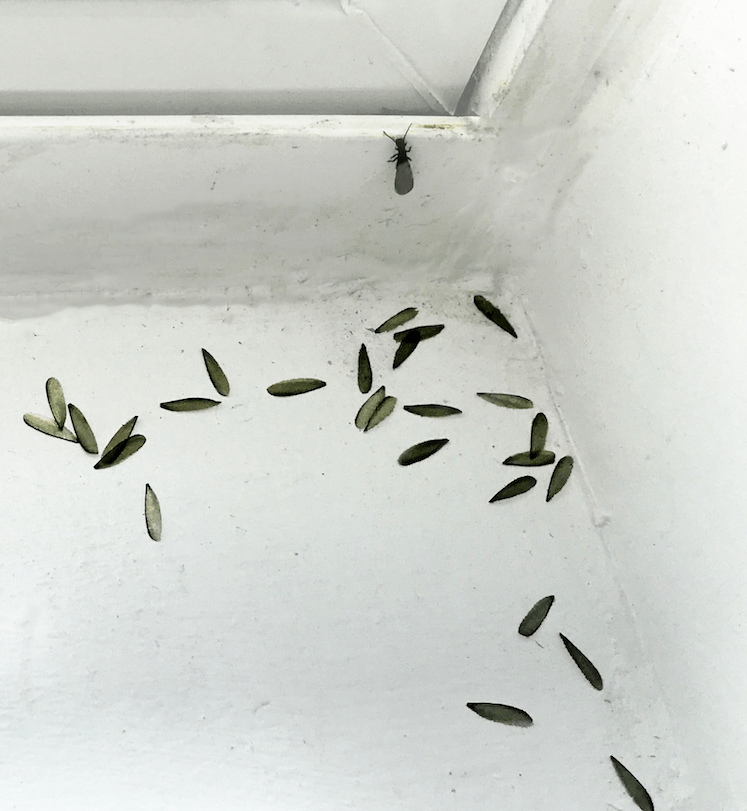 Termite, and wings shed by other termites, on interior window sill (Maryland, United States, April 3, 2020). Picture was taken shortly after exterior ground was treated. Image was cropped and edited in Photoshop to brighten background and increase backgrounds' contrast to termite and wings. Shedding of wings is associated with reproductive swarming. Suggested source describing shedding of wings associated with swarming: Srinivasan, Amia (September 10, 2018). "What Termites Can Teach Us". The New Yorker. Archived from the original on March 7, 2020.